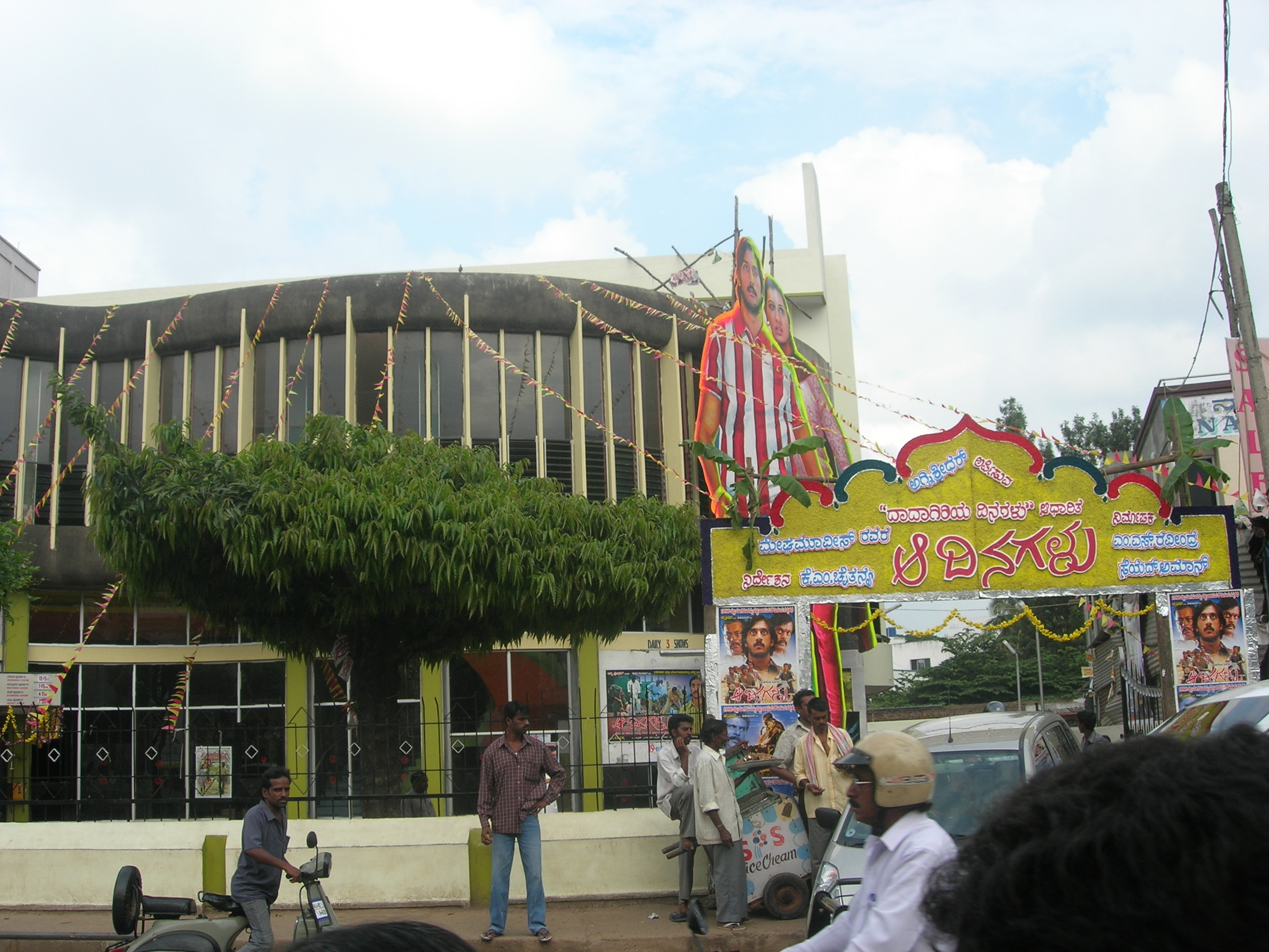 Photo taken on 19th October 2007 in front of a theater, Bangalore, Karnataka, India. On the day of release of Kannada feature film AA DINAGALU. Hero of the film Chetan and heroine Archana can be seen in the cut out. Summary Photo taken on 19th October 2007 in front of a theater, Bangalore, Karnataka, India. On the day of release of Kannada feature film AA DINAGALU. Hero of the film Chetan and heroine Archana can be seen in the cut out.